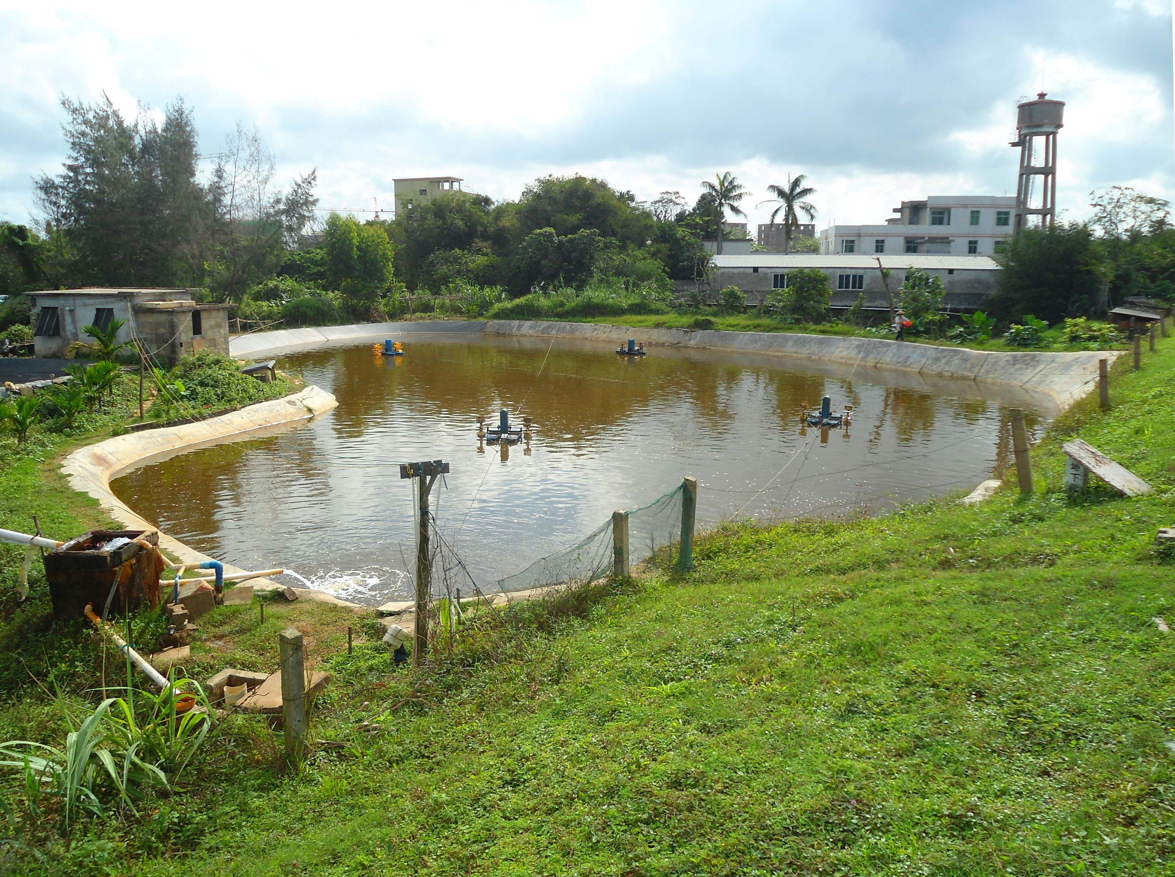 A fish farm in Hainan, China.